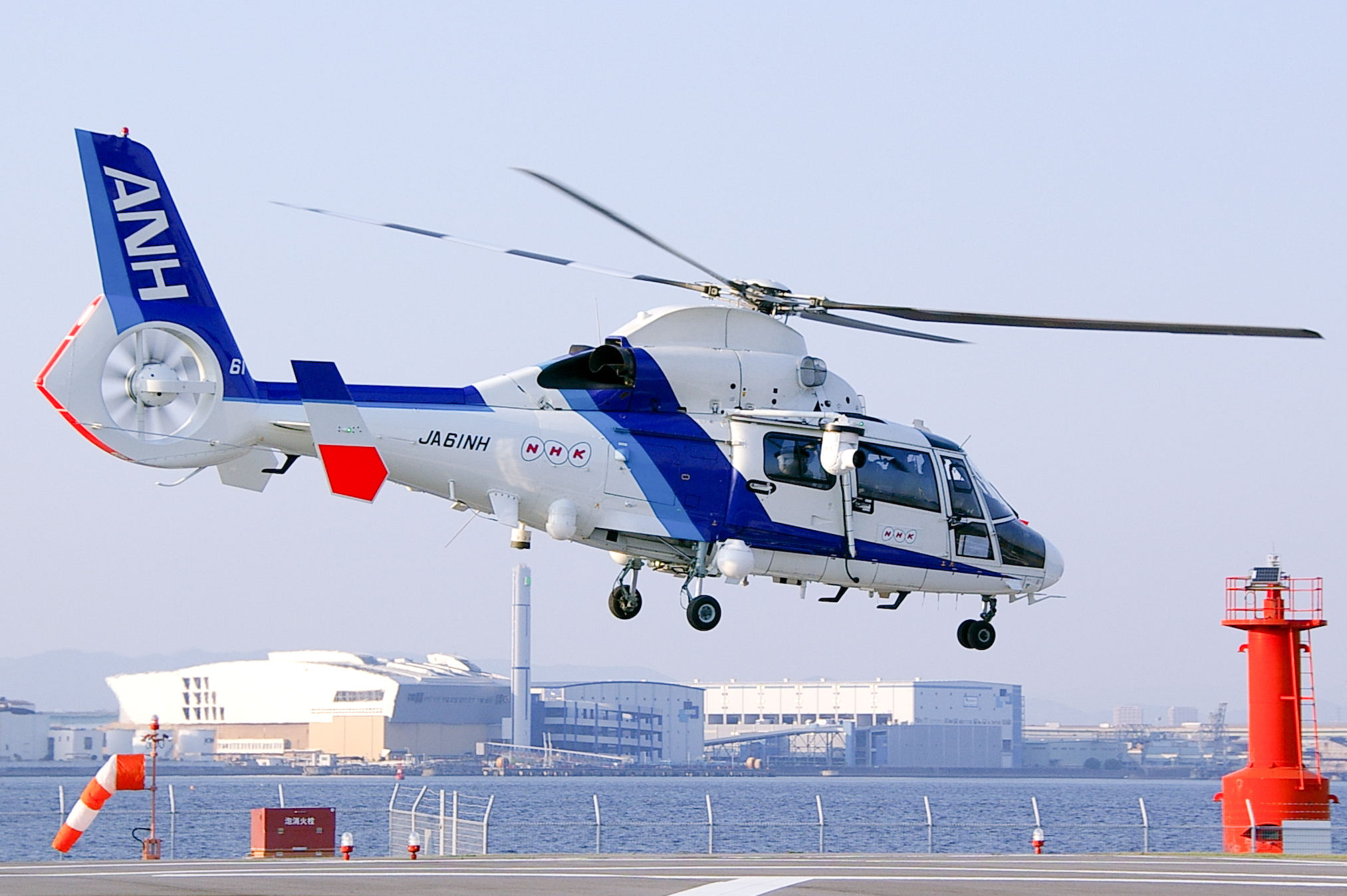 Photograph of taking off of All Nippon Helicopter's Eurocopter AS365N2 (JA61NH), chartered by NHK, taken at Maishima Heliport in Konohana-ku, Osaka, Osaka Prefecture, Japan.